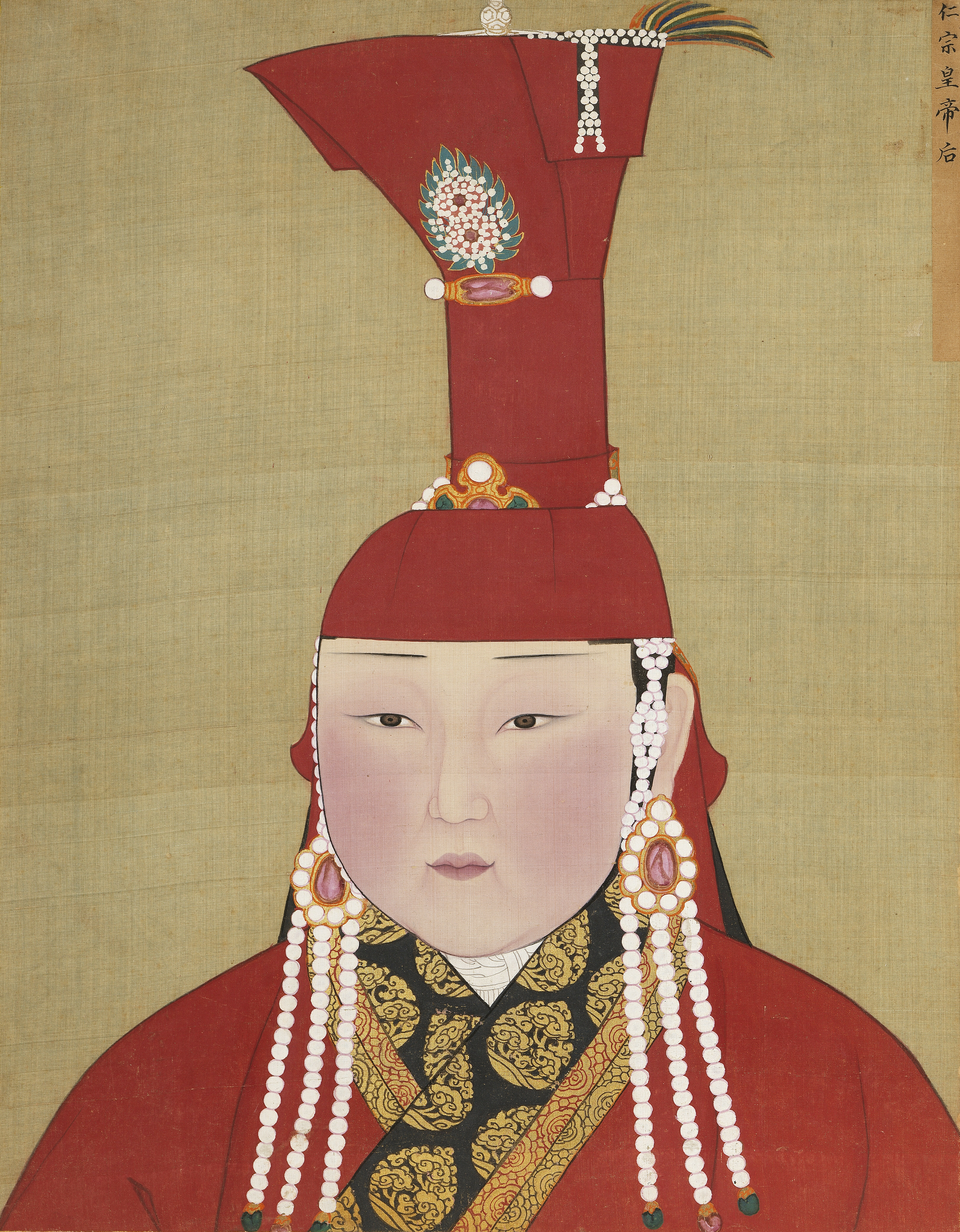 An unnamed wife of Ayurbarvada (a.k.a. Renzong). Paint and ink on silk. Portrait cropped out of a page from an album depicting several consorts of Yuan emperors (Yuandai dihou banshenxiang), now located in the National Palace Museum in Taipei (inv. nr. zhonghua 000325). Original size is 48 cm wide and 61.5 cm high. For the full page, see Image:YuanEmpressAlbumJiyatuAndAWifeOfAyurbarvada.jpg. Note: The description in the source (Dschingis Khan und seine Erben) at p. 303 seems to confuse Image:YuanEmpressAlbumJiyatuAndAWifeOfAyurbarvada.jpg and Image:YuanEmpressAlbumTwoWivesOfQaishan.jpg. I have tried to follow the Chinese captions on the respective portraits, not the description in Dschingis Khan und seine Erben. Some rows or columns of pixels near the margins of the pic may have been manipulated by me (Yaan) for optics. For an unaltered (except cropping) version, see the image at Image:YuanEmpressAlbumJiyatuAndAWifeOfAyurbarvada.jpg.